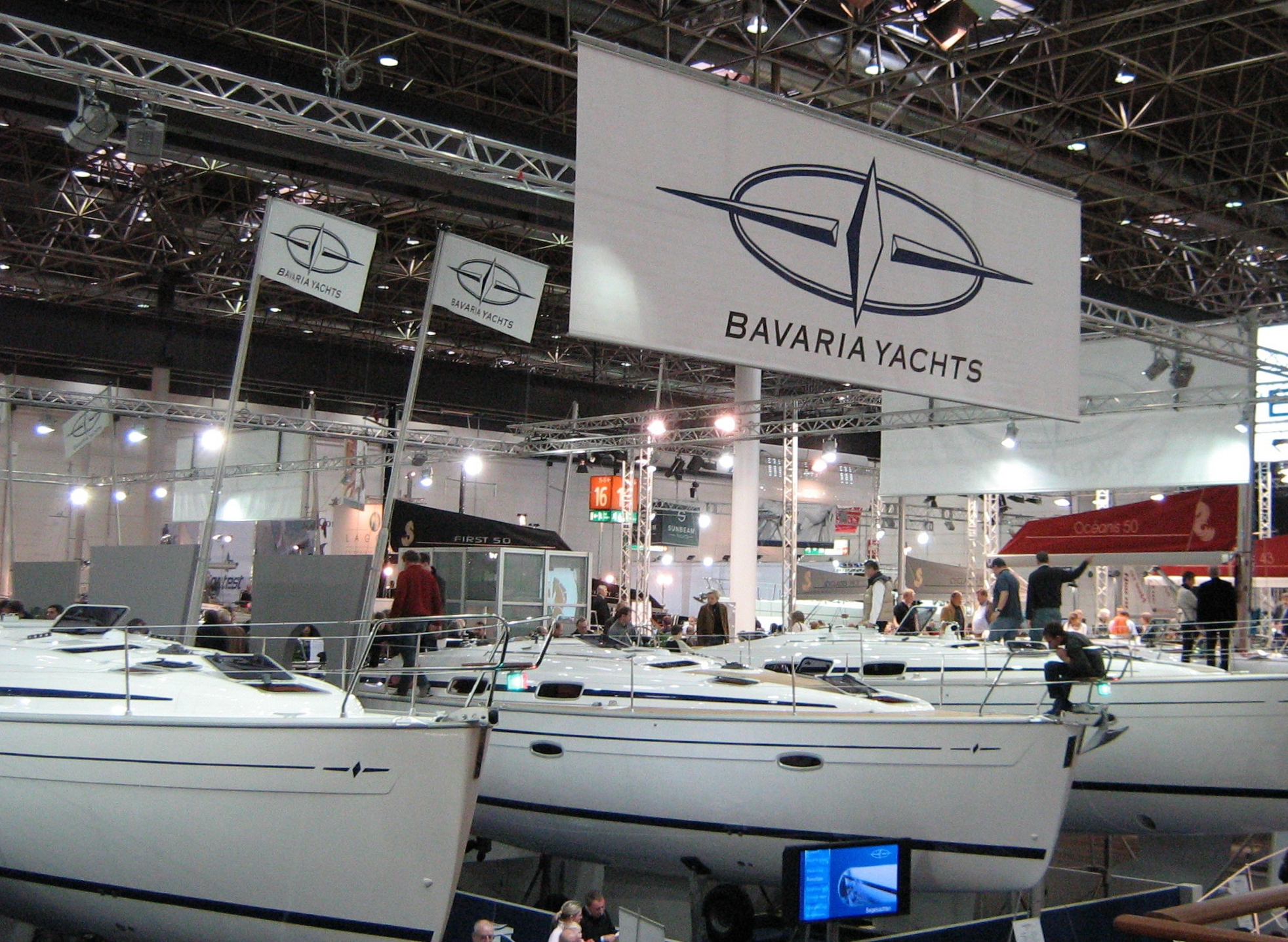 Bavaria sailing yachts at fair "boot 2007" in Düsseldorf/Germany